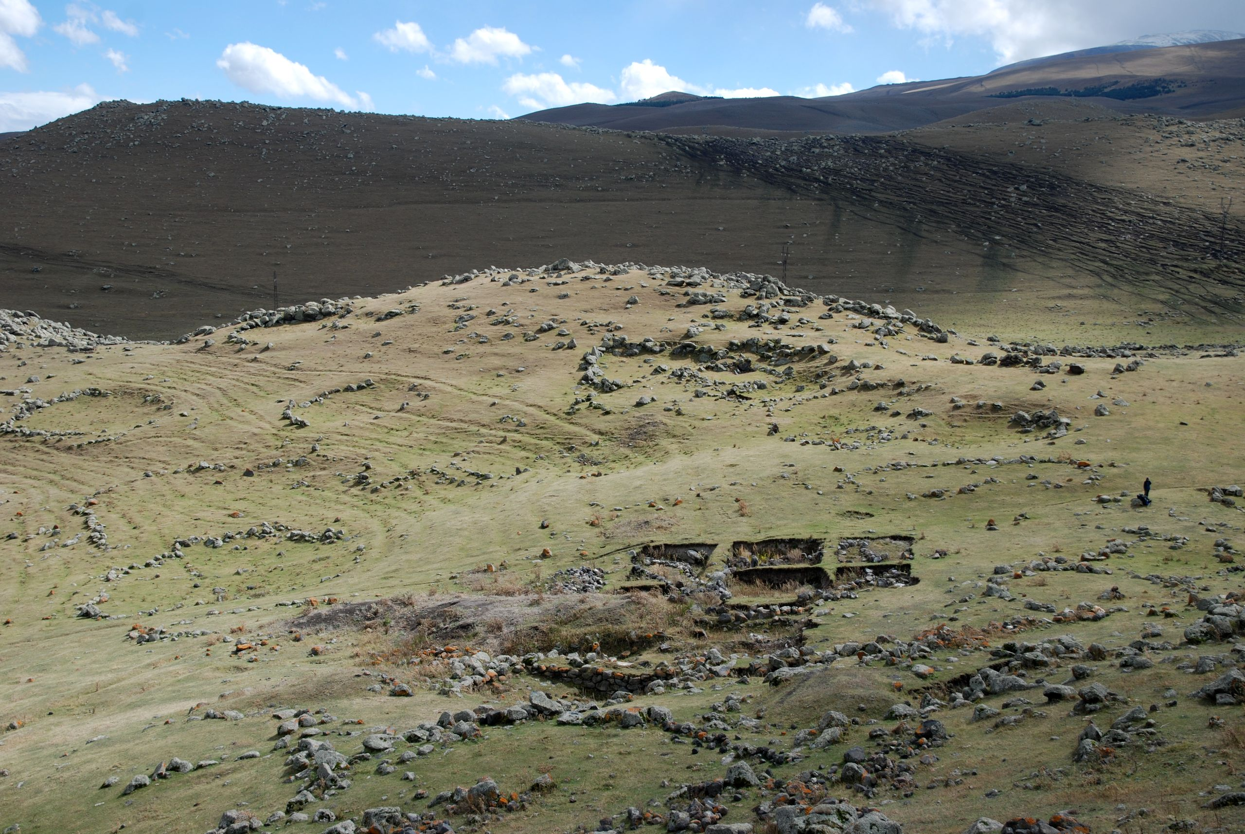 Tsaghkahovit, excavation south of citadel